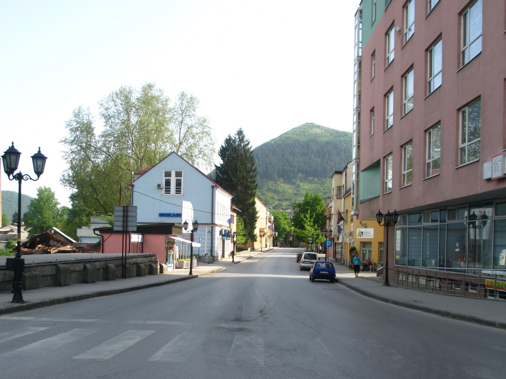 Visoko, Alija Izetebegović street